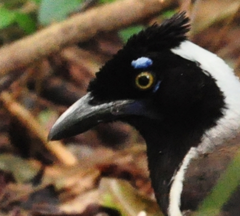 Head of a White-naped Jay (Cyanocorax cyanopogon) in Natal, Rio Grande do Norte, Brazil.